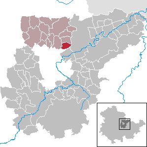 Wohlsborn in Thuringia - District Weimarer Land